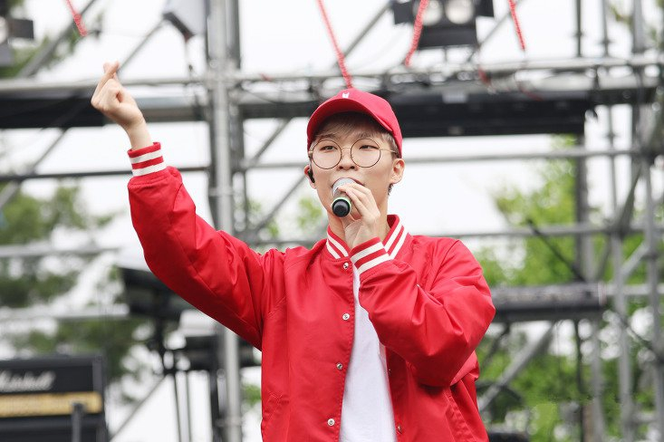 Chanhyuk at Ipselenti Korea University Campus Festival in 2016